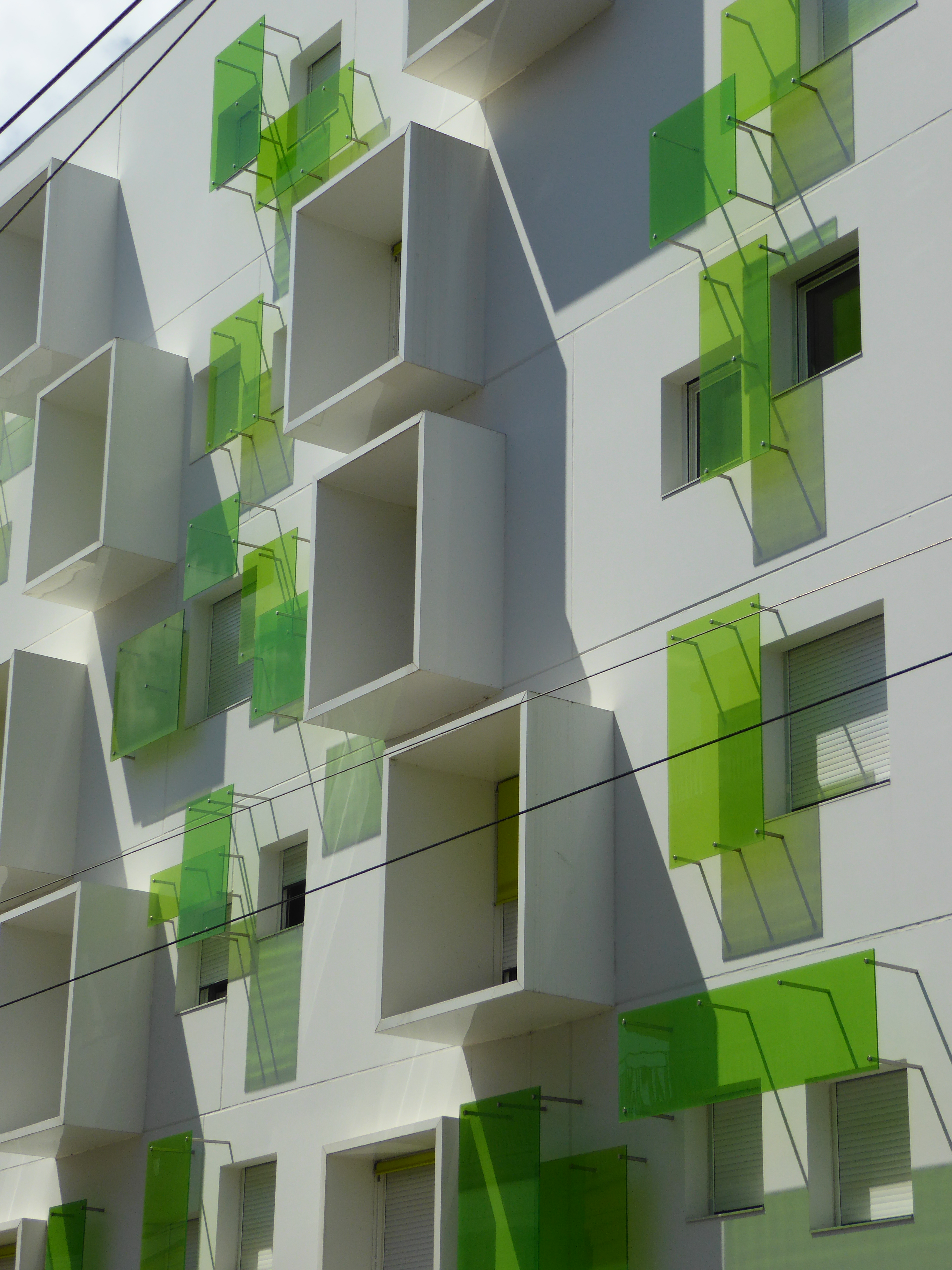 Apartment building, Avenue Emile Counord, Bordeaux, France, July 2014